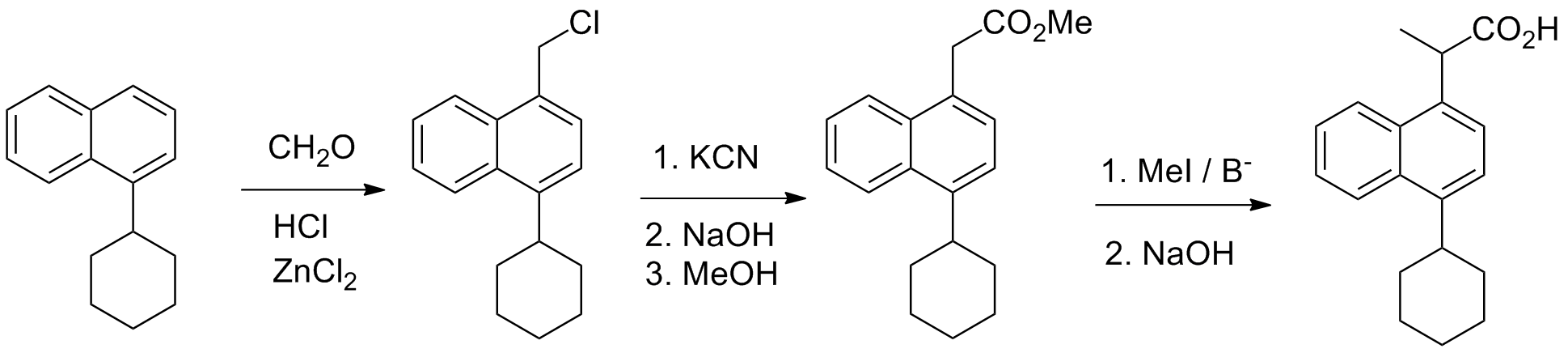 BE 870553